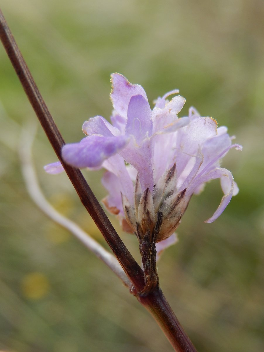 Cephalaria transsylvanica (L.) Roem. & Schult. - classified by the photographer